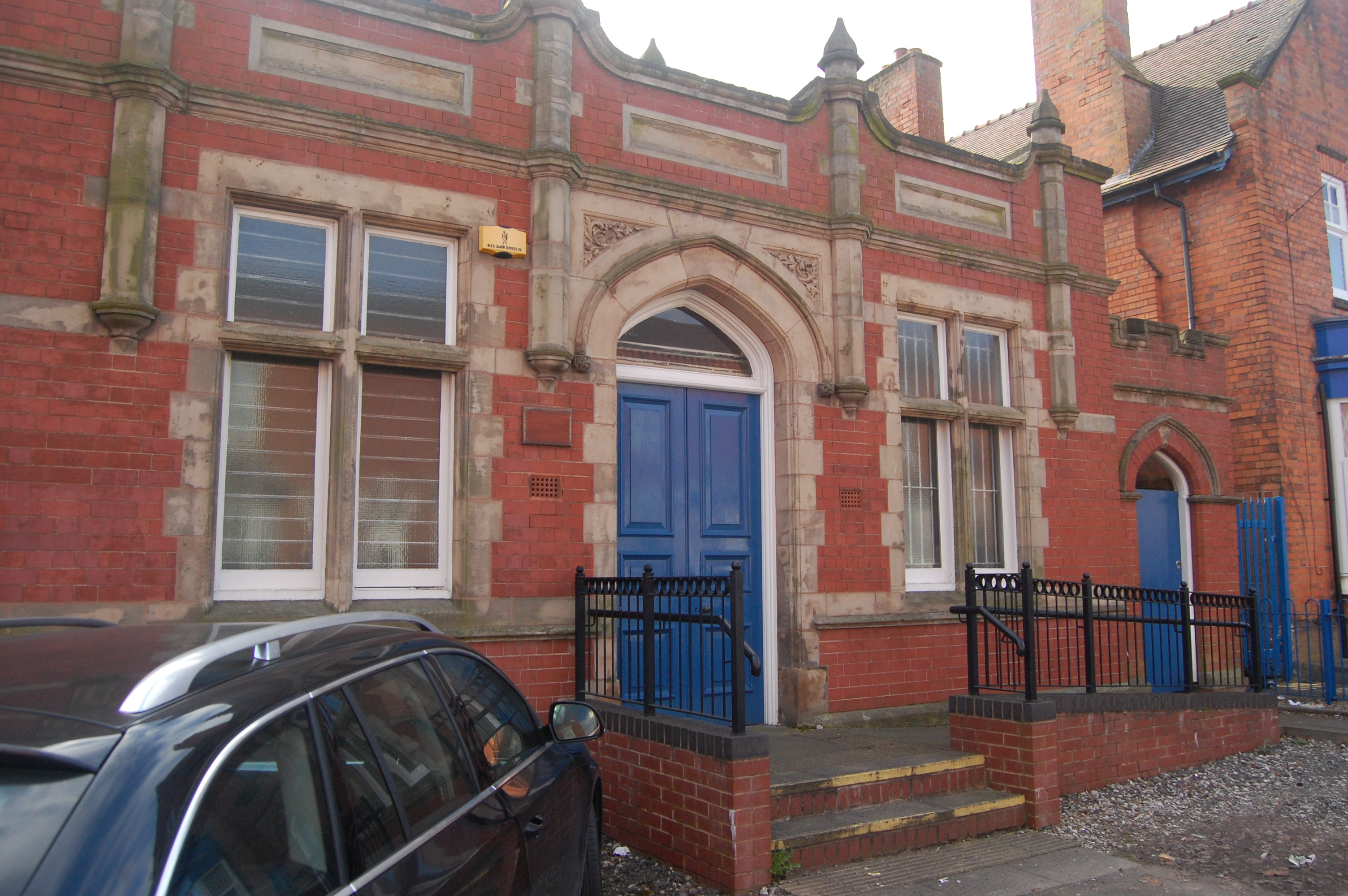 Sparkhill Police Station, Birmingham, England - side door, leading to West Midlands Police Museum